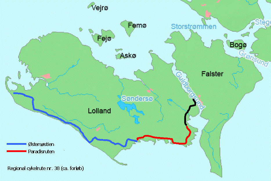 Denmark, islands of Lolland, Falster, and the surrounding bays and islands. Regional cykelrute nr. 38, Østersøstien og Paradisruten